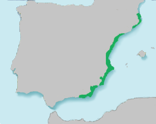 Distribution map of (Aphanius iberus) in Iberian Peninsula.